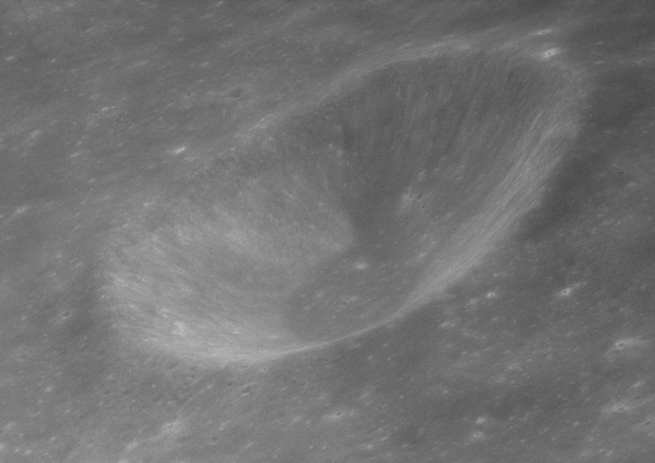 Oblique view of Knox-Shaw